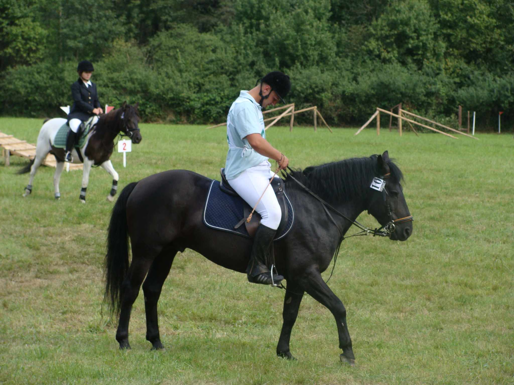 Village Rudawka Rymanowska. 2008